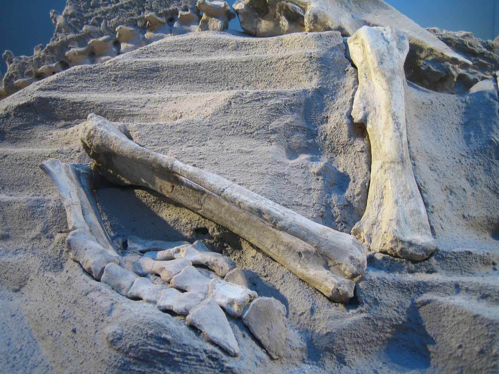 Protoceratops andrewsi leg detail, in Cosmocaixa, Barcelona.